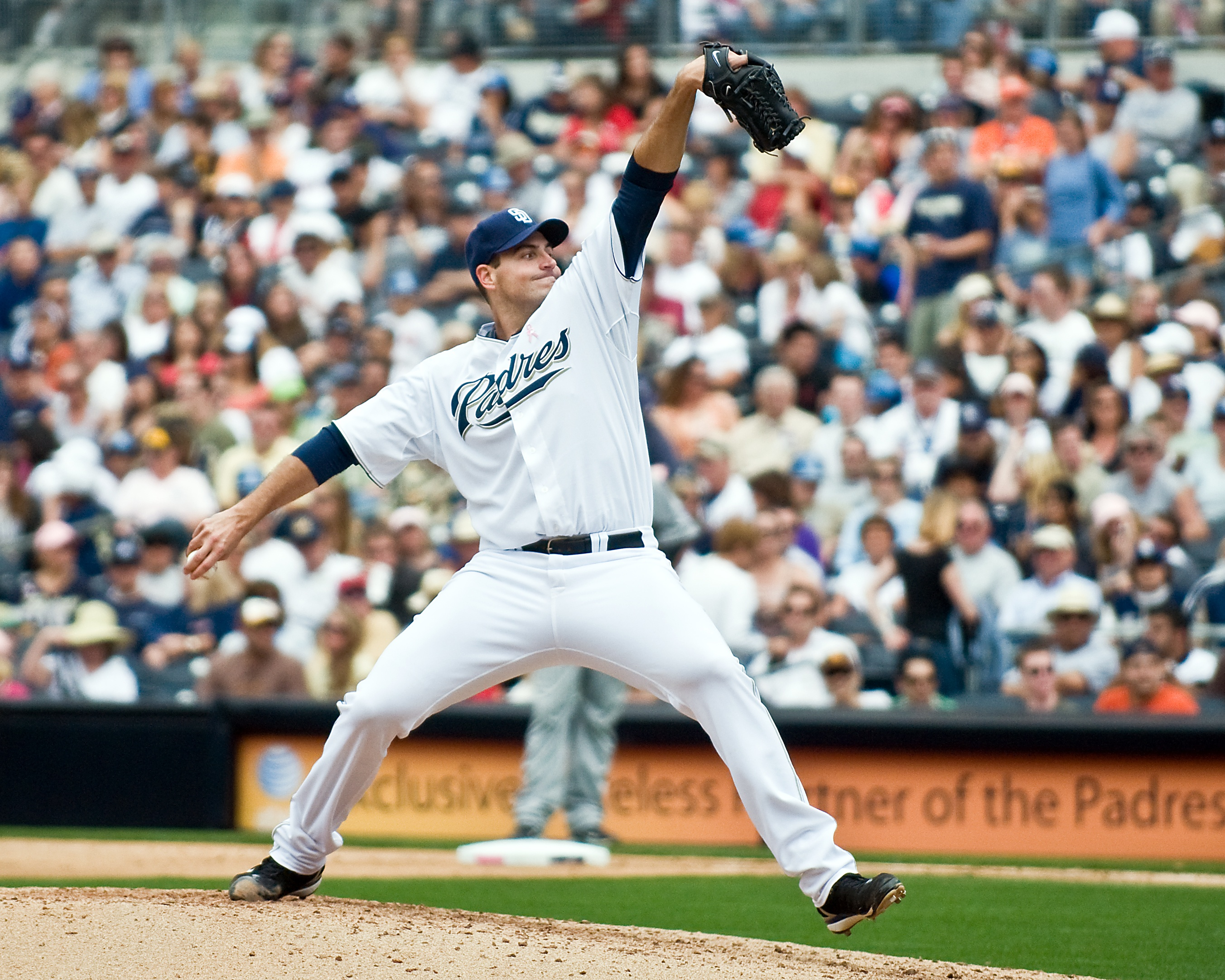 Chris Young San Diego Padres pitcher